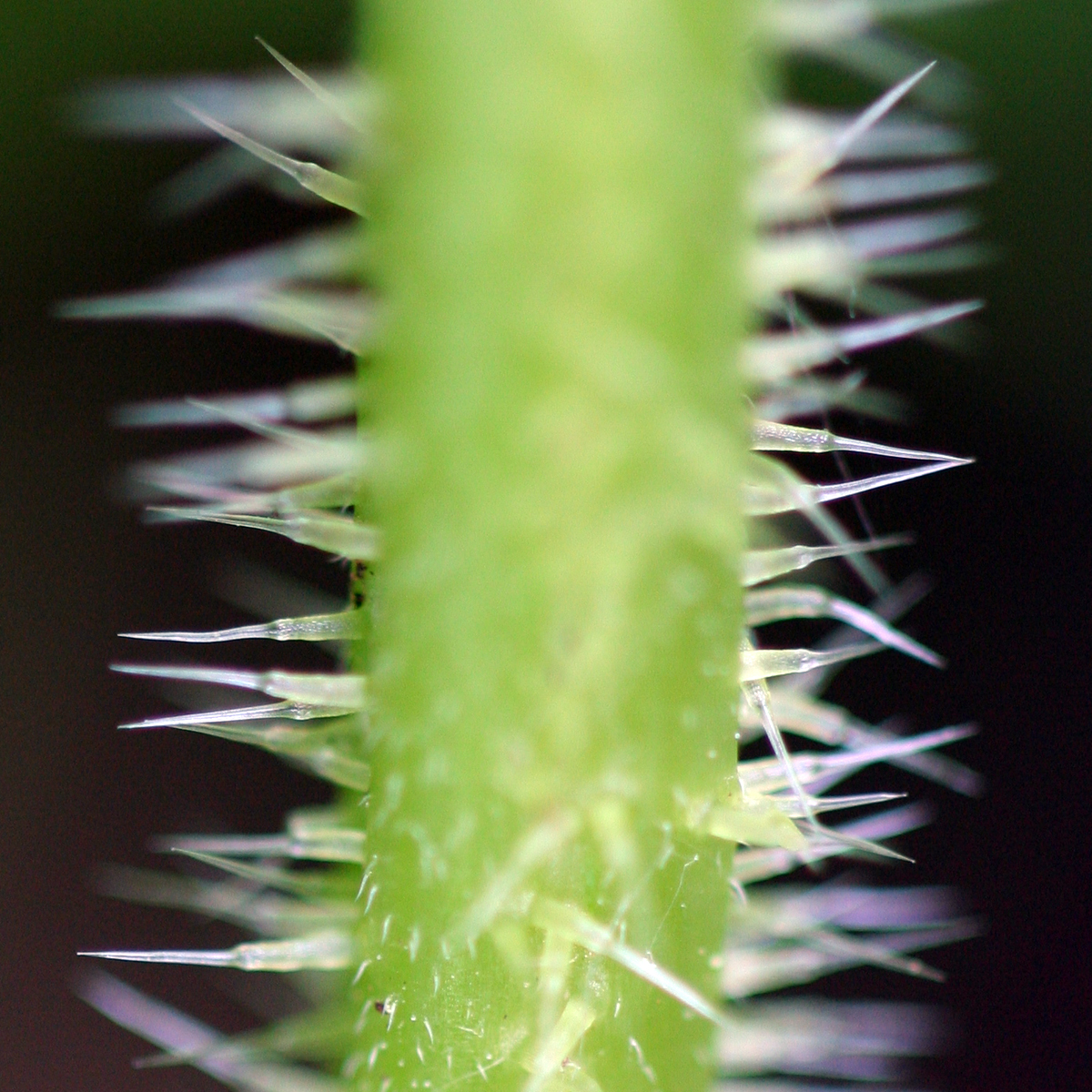 Urtica dioica (stinging nettle) photographed in the town of Skaneateles, NY